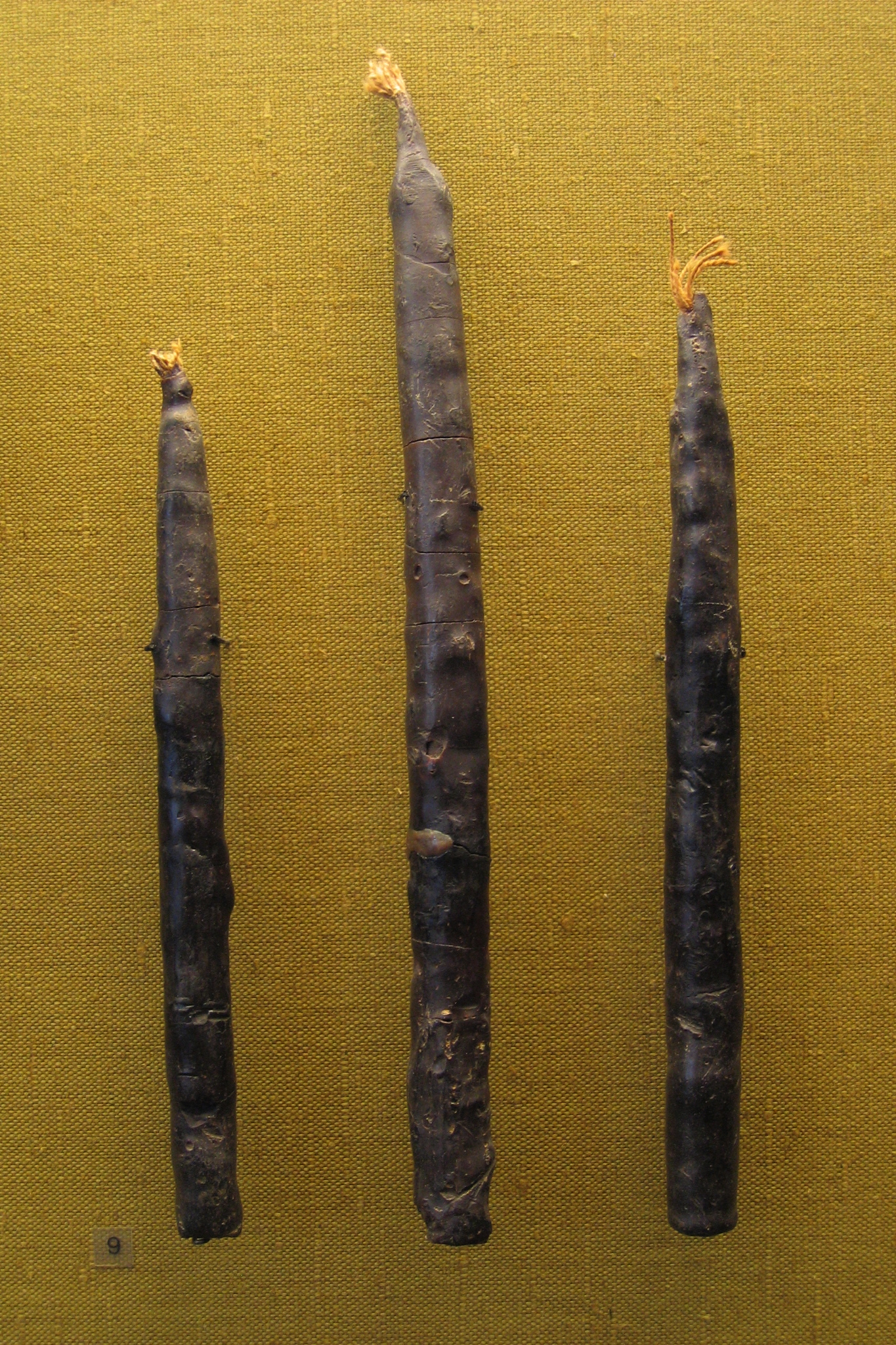 Three bees wax candles found at the Alamannic gravyard of Oberflacht, Seitingen-Oberflacht, Kreis Tuttlingen, Germany. Dating to 6th or beginning 7th century A.D. They are the oldest survived bees wax candles north of the Alps. Dimensions from left to right